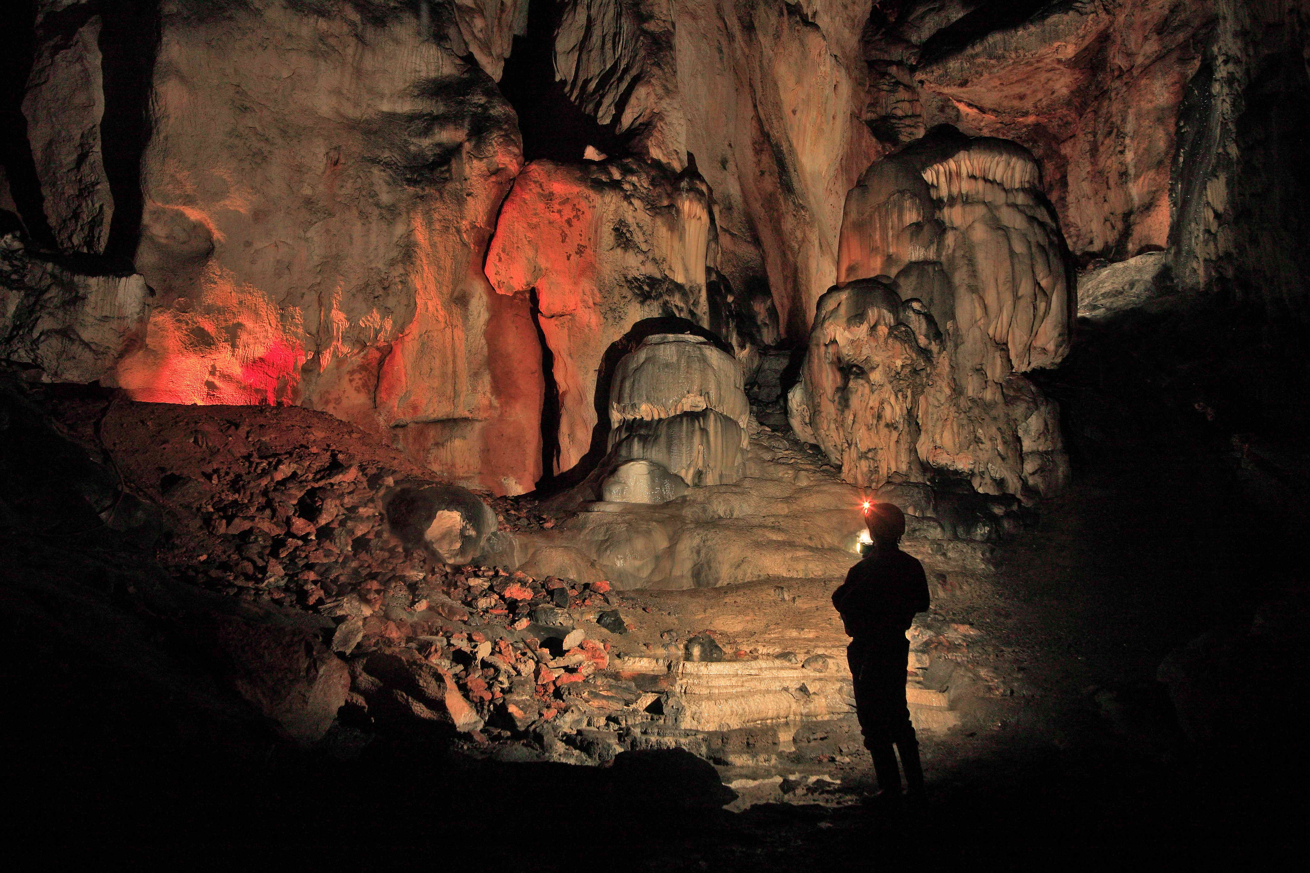 Inside the cave Samograd, Cave Park Grabovača